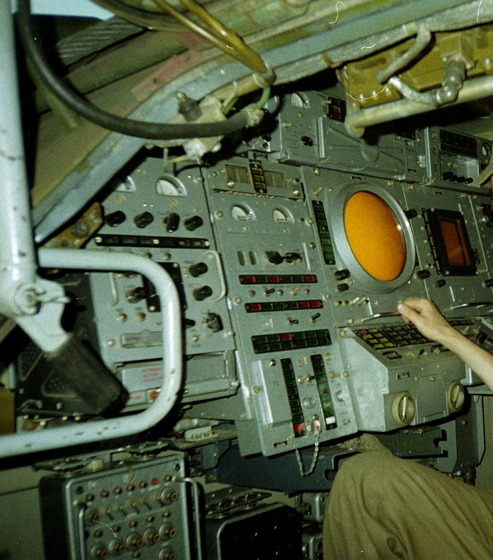 Inside of TELAR 9A310M1 of a Buk SA-11 SAM system.